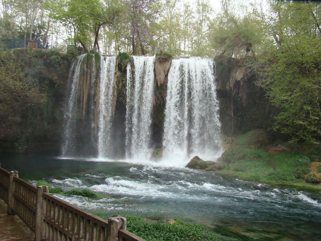 Düden Waterfalls Antalya